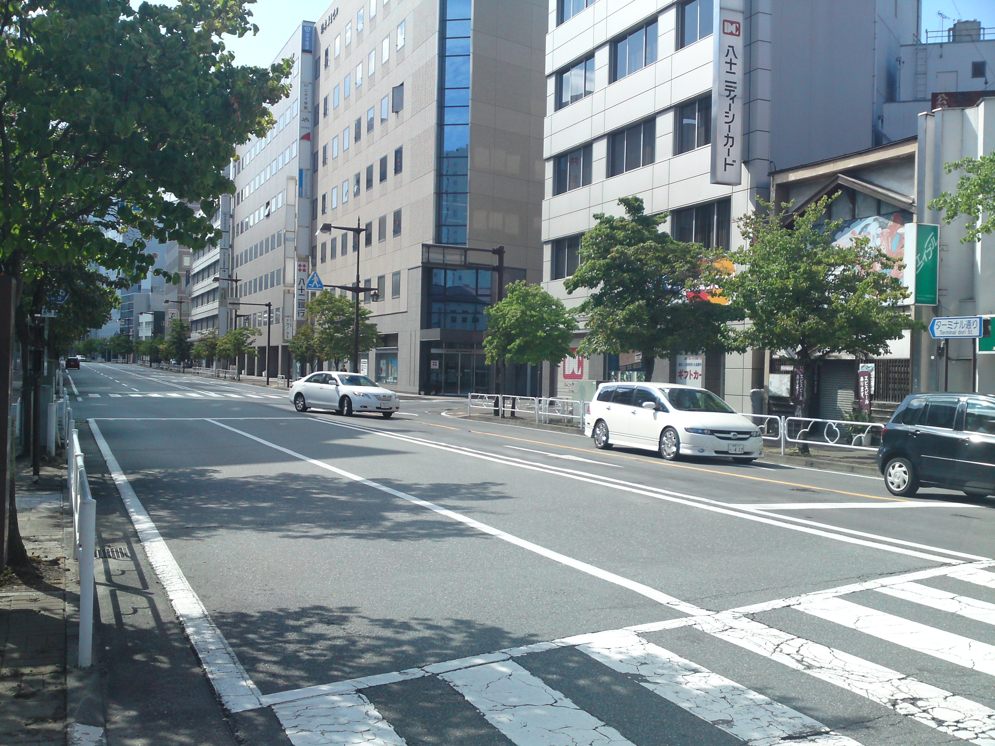 Terminal-dori Street, Nagano, Japan